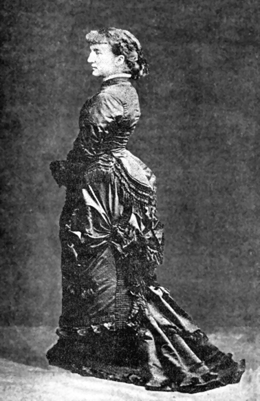 Katharine O'Shea (1846-1921)